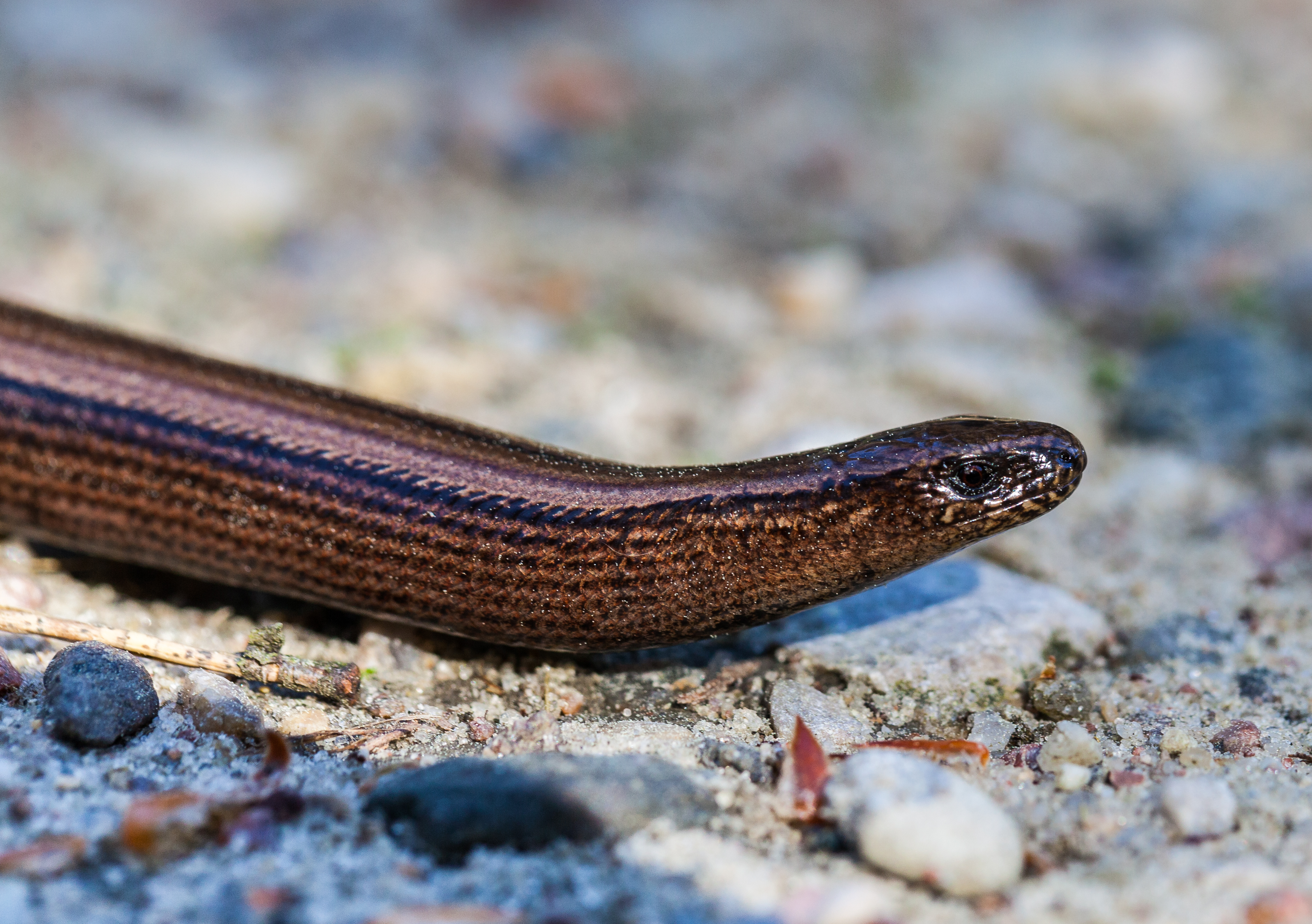 Slow worm (Anguis fragilis), Jurata, Hel Peninsula, Poland